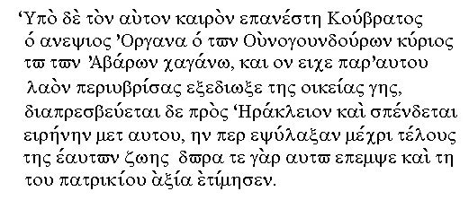 Quote from Hystoria Syntomos breviarum, by Patriarch Nikephoros I, edition of Carl de Boor, 24, 9-12